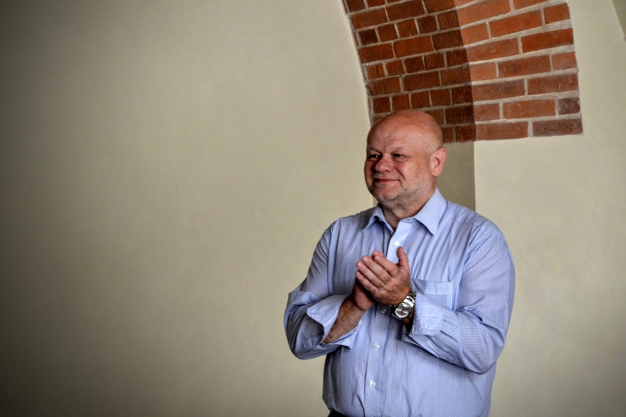 Jiří Vykoukal, Czech historian, 2016